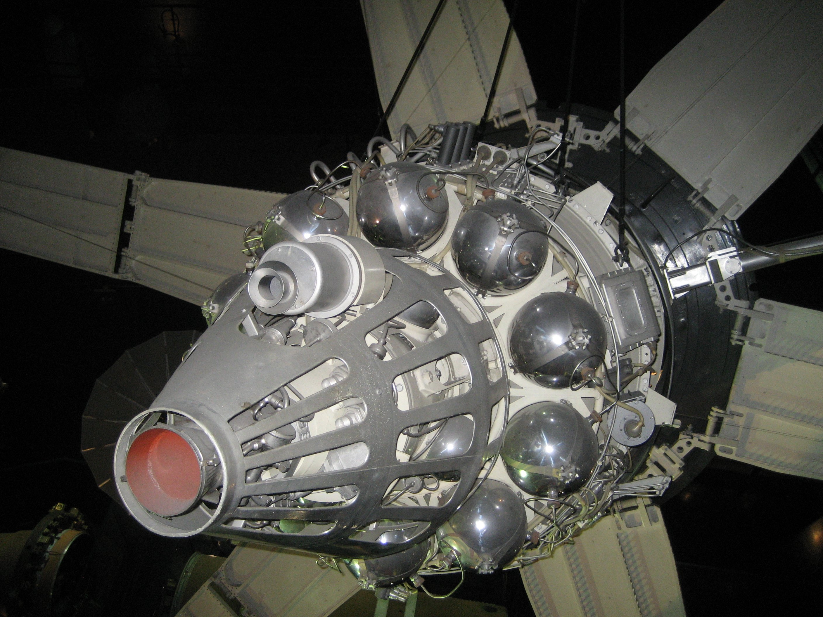 Closeup of the Molniya spacecraft at Le Bourget.